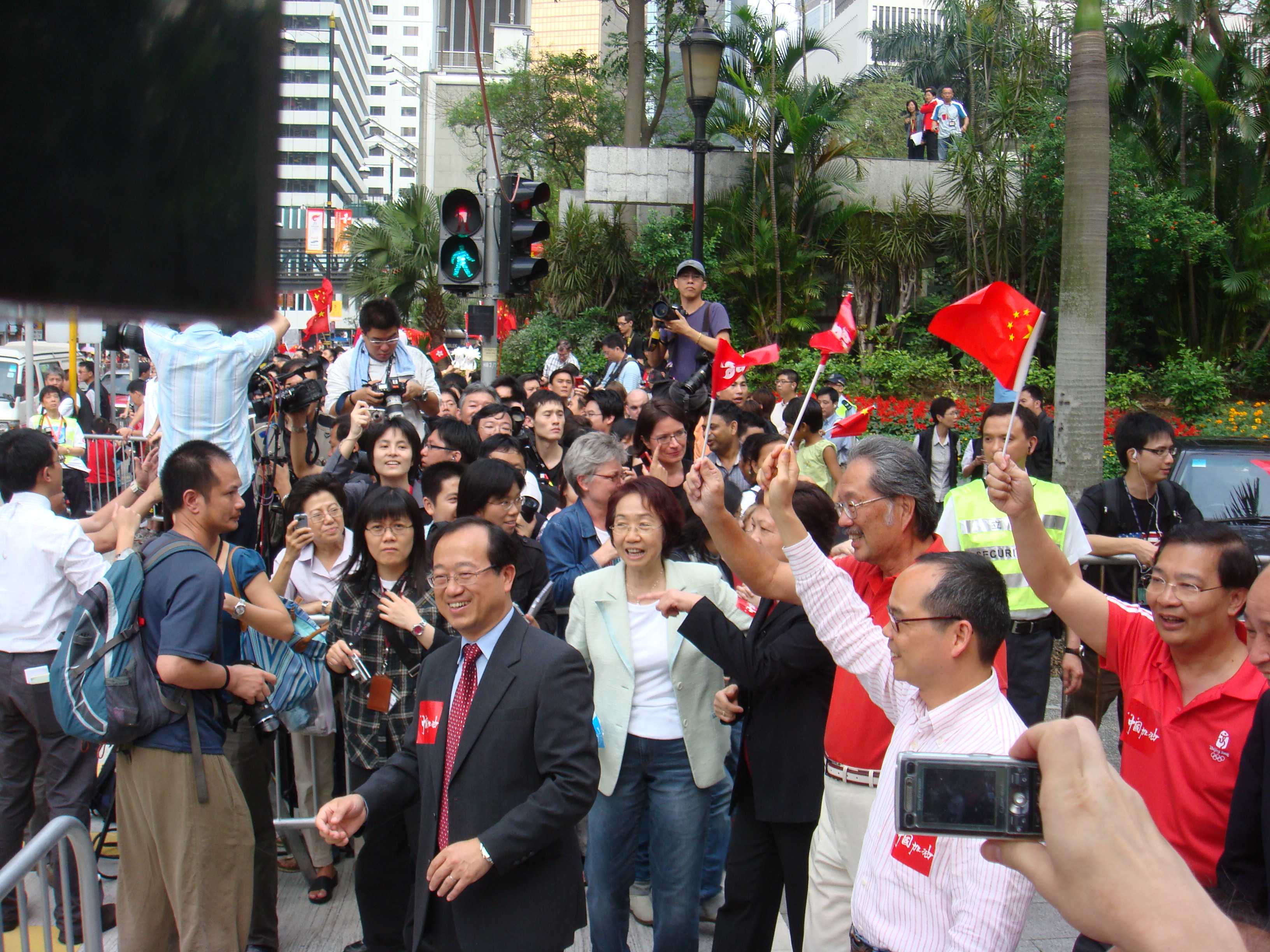 2008 Summer Olympics Torch in the Legislative Council, Central, Hong Kong.